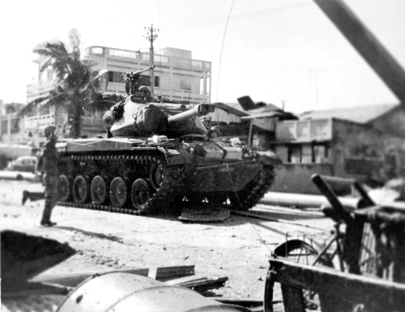 M41 of South Vietnamese Army advances of enemy positions in Saigon. - Vietnam May 1960.